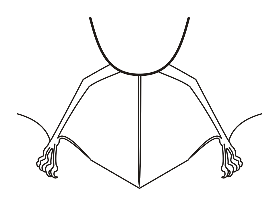 According to Husson, 1962 shows interfemoral membranes, calcar, feet and tail in bats of genus Lonchorhina